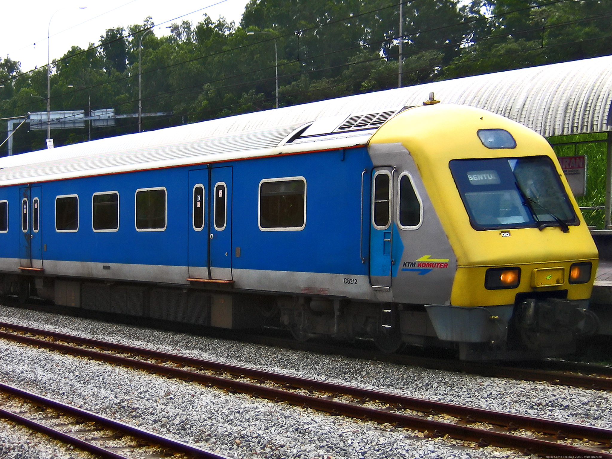 A 3-car KTM Komuter Class 82 EMU (Union Carriage Wagon/Alstom) at Subang Jaya Station on the Sentul-Port Klang line.